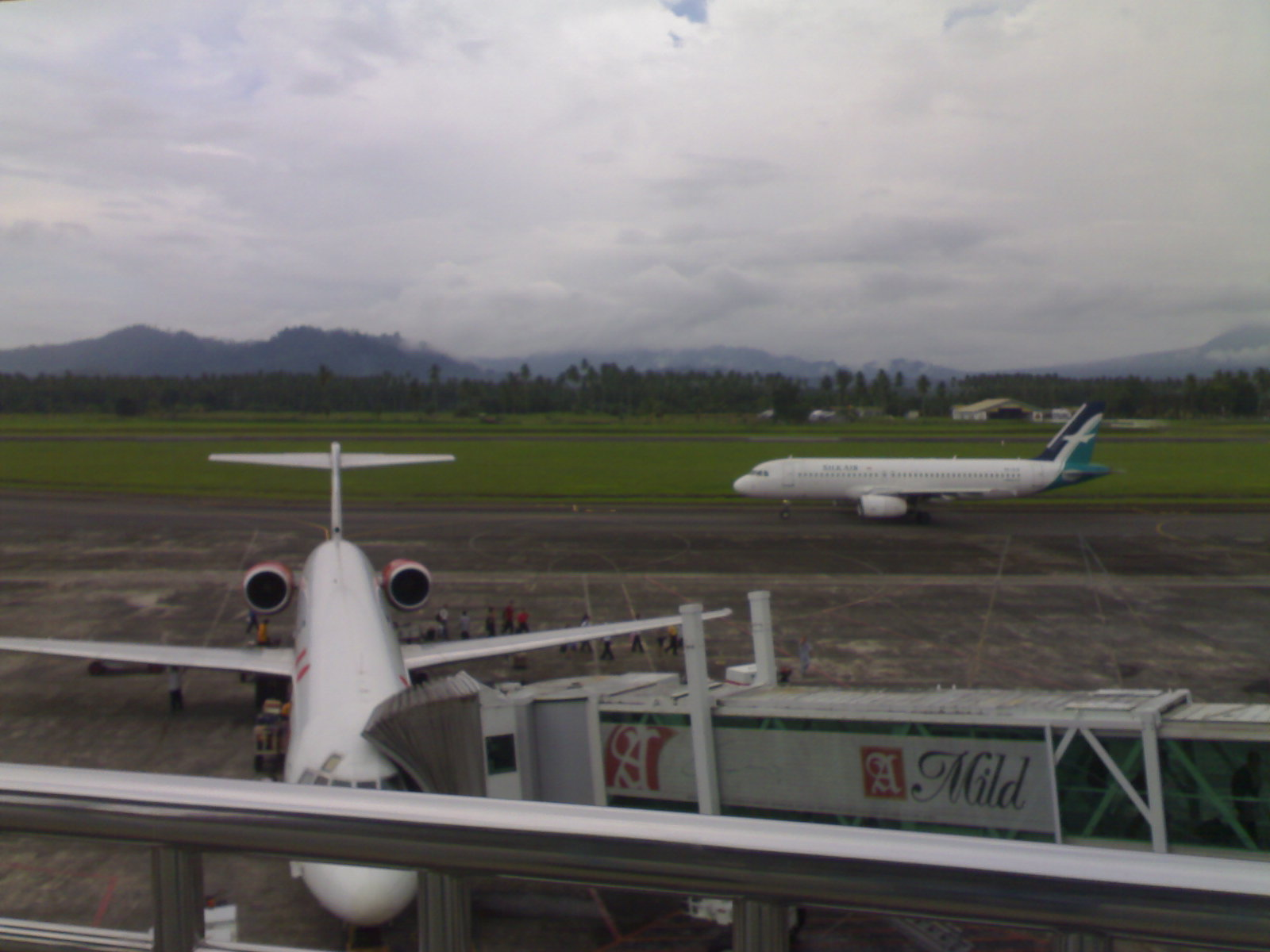 Apron of Sam Ratulangi International Airport